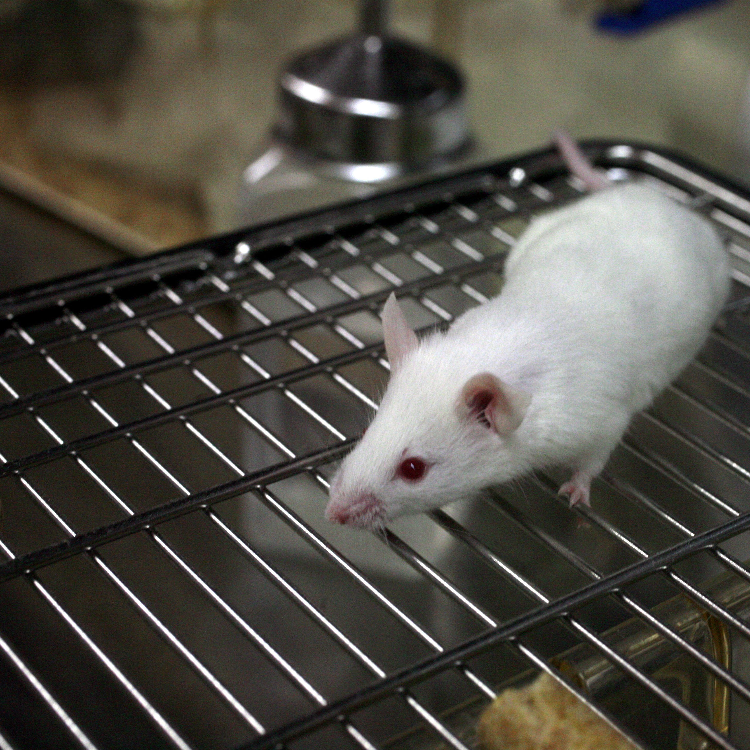 Laboratory mouse